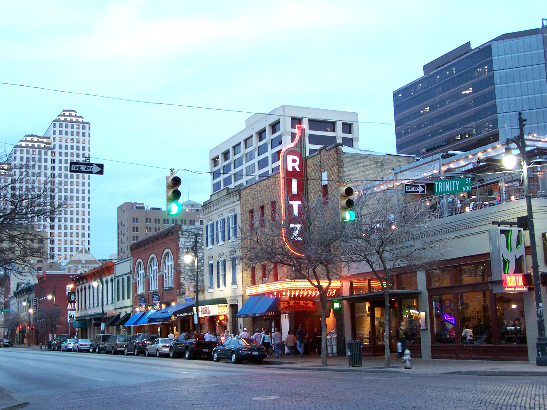 Dusk on Sixth Street at Sixth Street & Trinity Street, Austin, Texas, United States. The area of Sixth Street roughly bounded by Fifth Street, Seventh Street, Lavaca Street and Interstate 35 is known as the Sixth Street Historic District and was listed in the National Register of Historic Places on December 30, 1975.